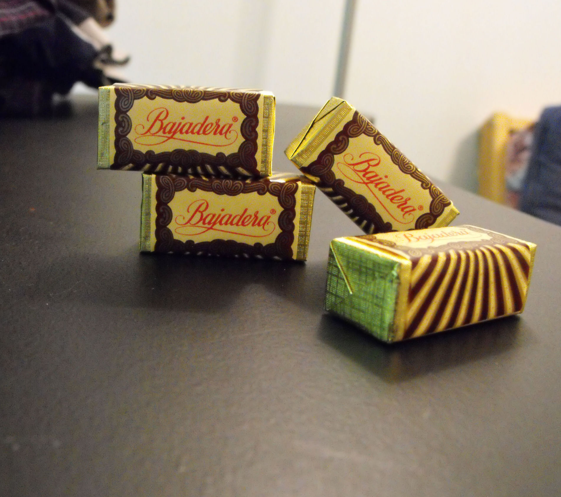 Krash product - Bajadera Croatia.